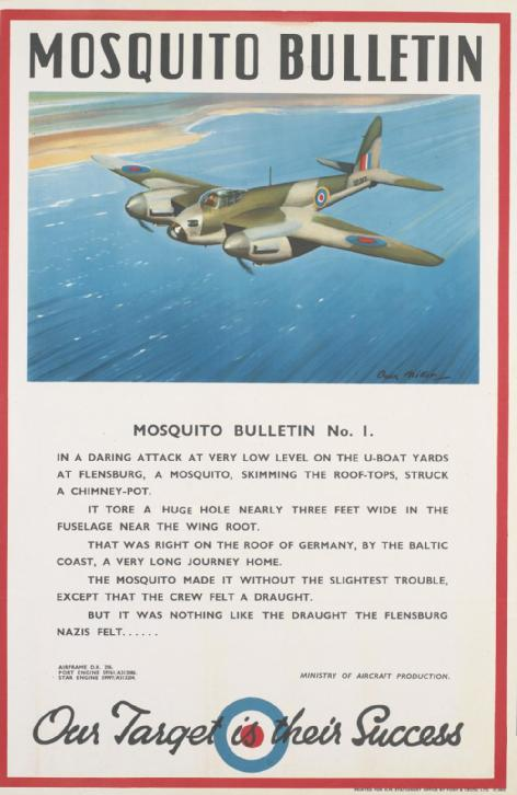 Mosquito Bulletin whole: the image is positioned in the upper half, with a smaller image placed in the lower centre. The title and text are partially integrated and placed along the top edge and in the lower half, in black. All set against a white background and held within a red border. image: a depiction of a British Mosquito aircraft, flying over the sea alongside a stretch of coastline. The smaller image is of an RAF roundel. text: MOSQUITO BULLETIN Owen Miller MOSQUITO BULLETIN No. 1. IN A DARING ATTACK AT VERY LOW LEVEL ON THE U-BOAT YARDS AT FLENSBURG, A MOSQUITO, SKIMMING THE ROOF-TOPS, STRUCK A CHIMNEY-POT. IT TORE A HUGE HOLE NEARLY THREE FEET WIDE IN THE FUSELAGE NEAR THE WING ROOT. THAT WAS RIGHT ON THE ROOF OF GERMANY, BY THE BALTIC COAST, A VERY LONG JOURNEY HOME. THE MOSQUITO MADE IT WITHOUT THE SLIGHTEST TROUBLE, EXCEPT THAT THE CREW FELT A DRAUGHT. BUT IT WAS NOTHING LIKE THE DRAUGHT THE FLENSBURG NAZIS FELT...... AIRFRAME D.K. 296. PORT ENGINE 59761/A313086. STAR ENGINE 59997/A313204. MINISTRY OF AIRCRAFT PRODUCTION. Our Target is their Success PRINTED FOR H.M. STATIONERY OFFICE BY FOSH and CROSS. LTD. 51/3025